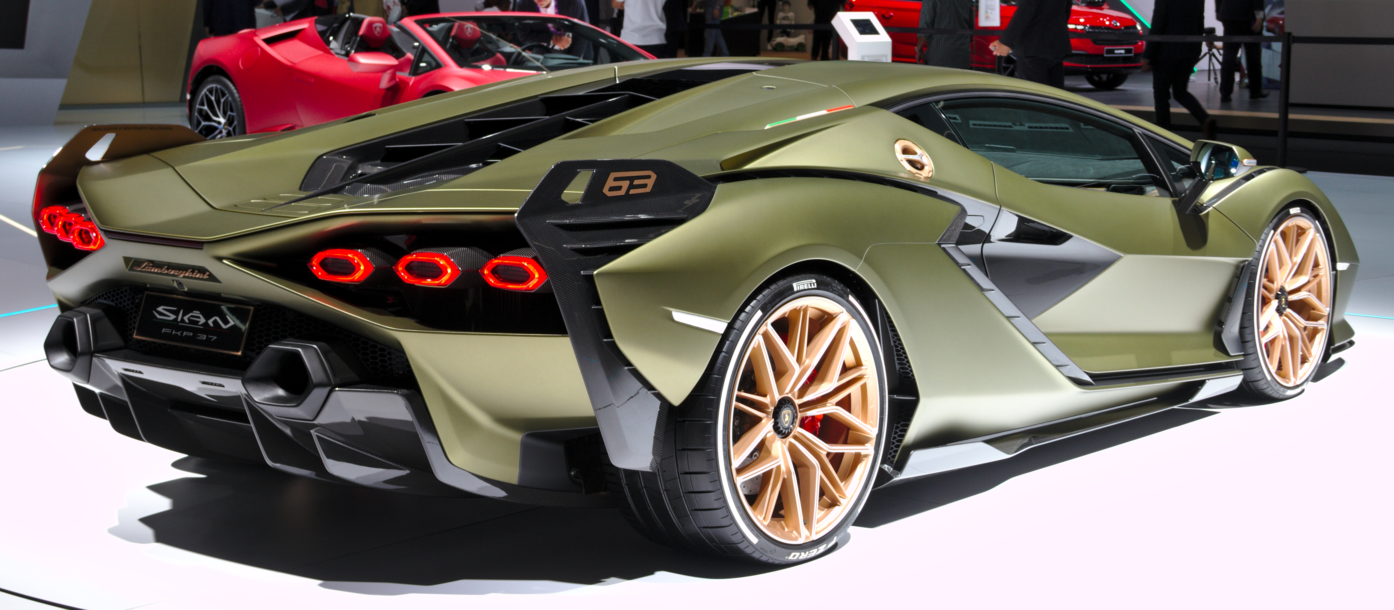 Lamborghini_Sian at IAA 2019